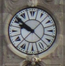 Clock face, Dolmabahçe Clock Tower, Istanbul